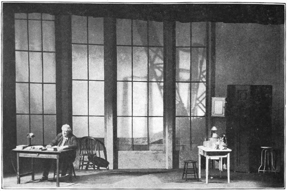 R. U. R. (Rosssum's Universal Robots). Louis Calvert as Mr. Alquist in the Epilogue of the play by Karel Čapek, produced by Theatre Guild.